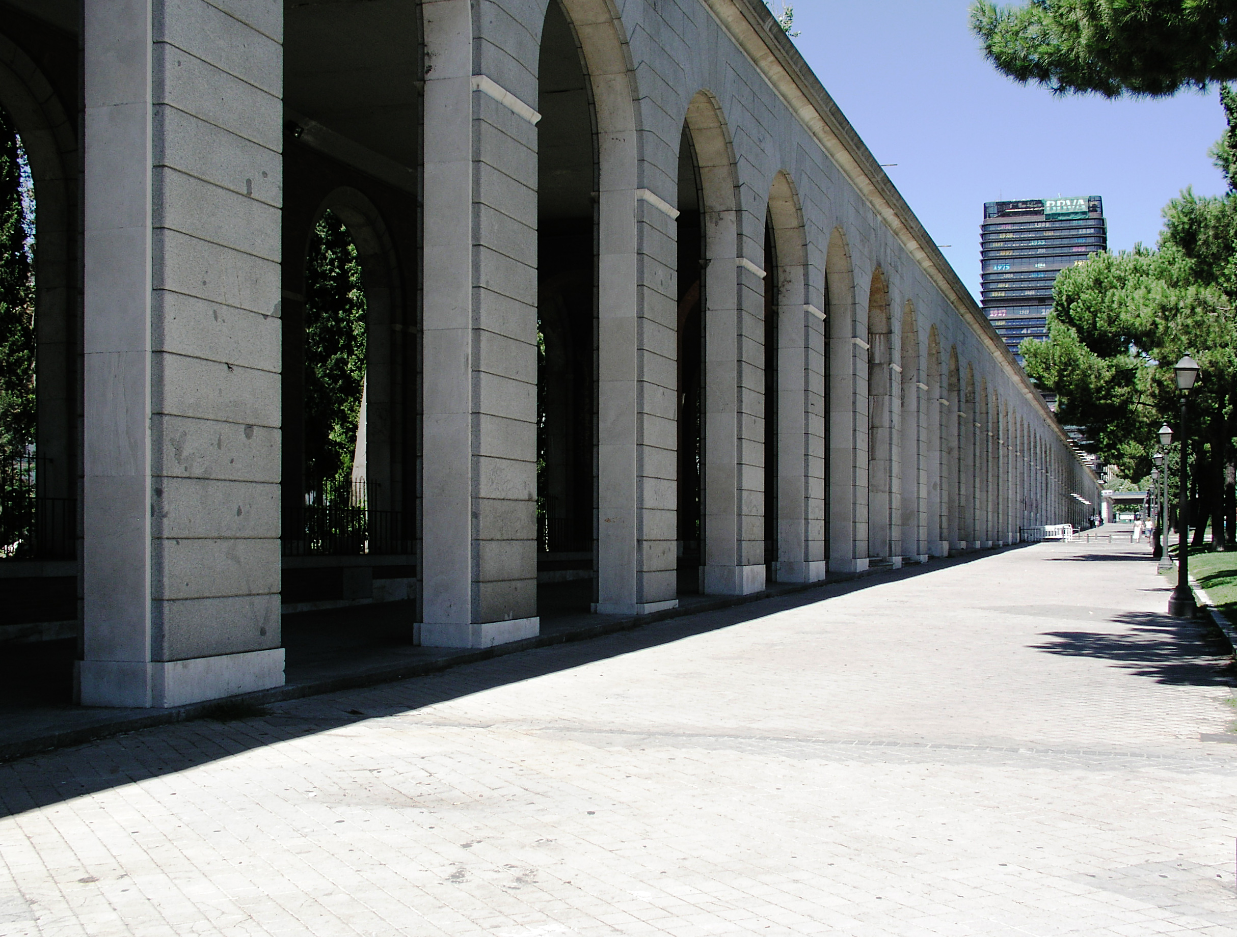 Nuevos ministerios, Madrid, Spain. Arcade.